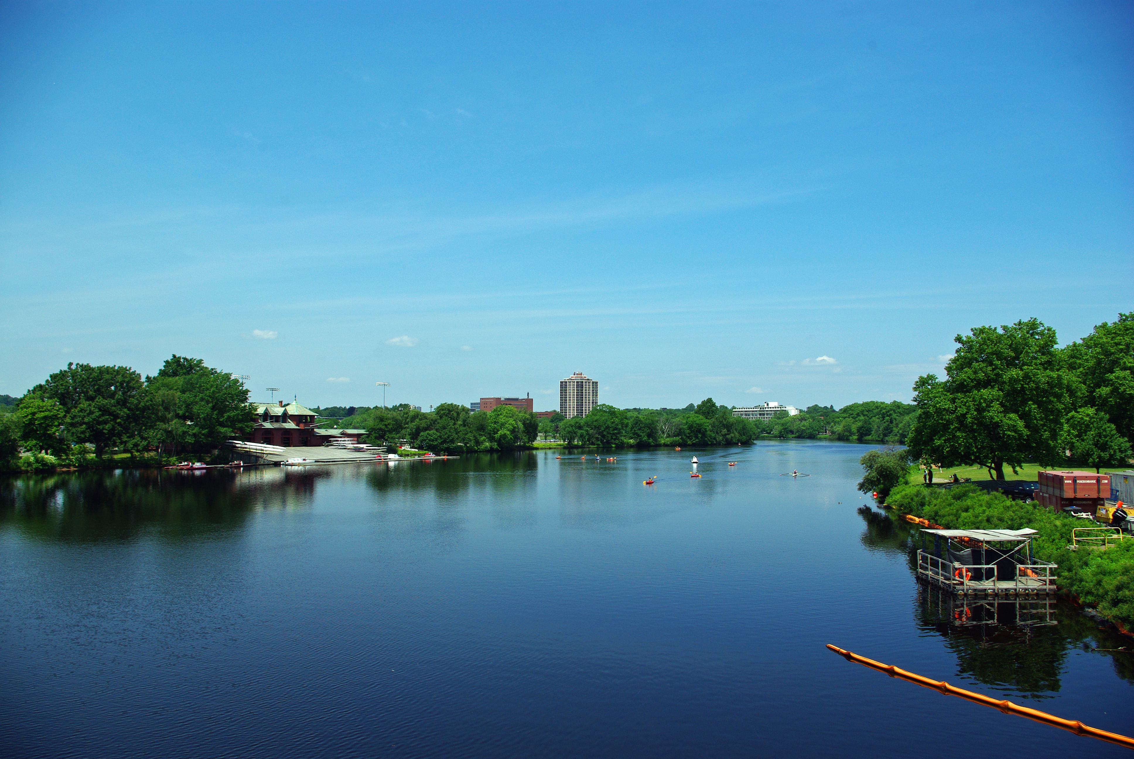 Charles River, seen from Anderson Memorial Bridge, Cambridge, Massachusetts